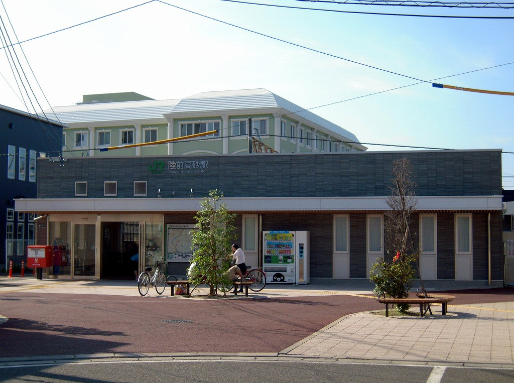 JR East Senseki line Rikuzen-Takasago station (Miyagino-ku,Sendai city,Miyagi pref.,Japan)